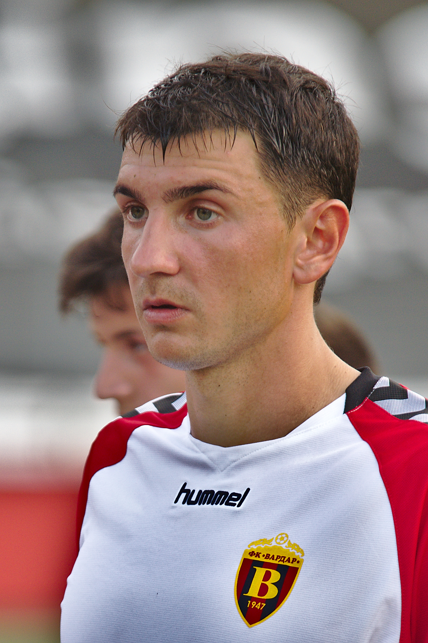 Friendly match Admira Wacker Mödling vs. FK Vardar Skopje, 2017-06-21. Picture shows: Yevhen Novak